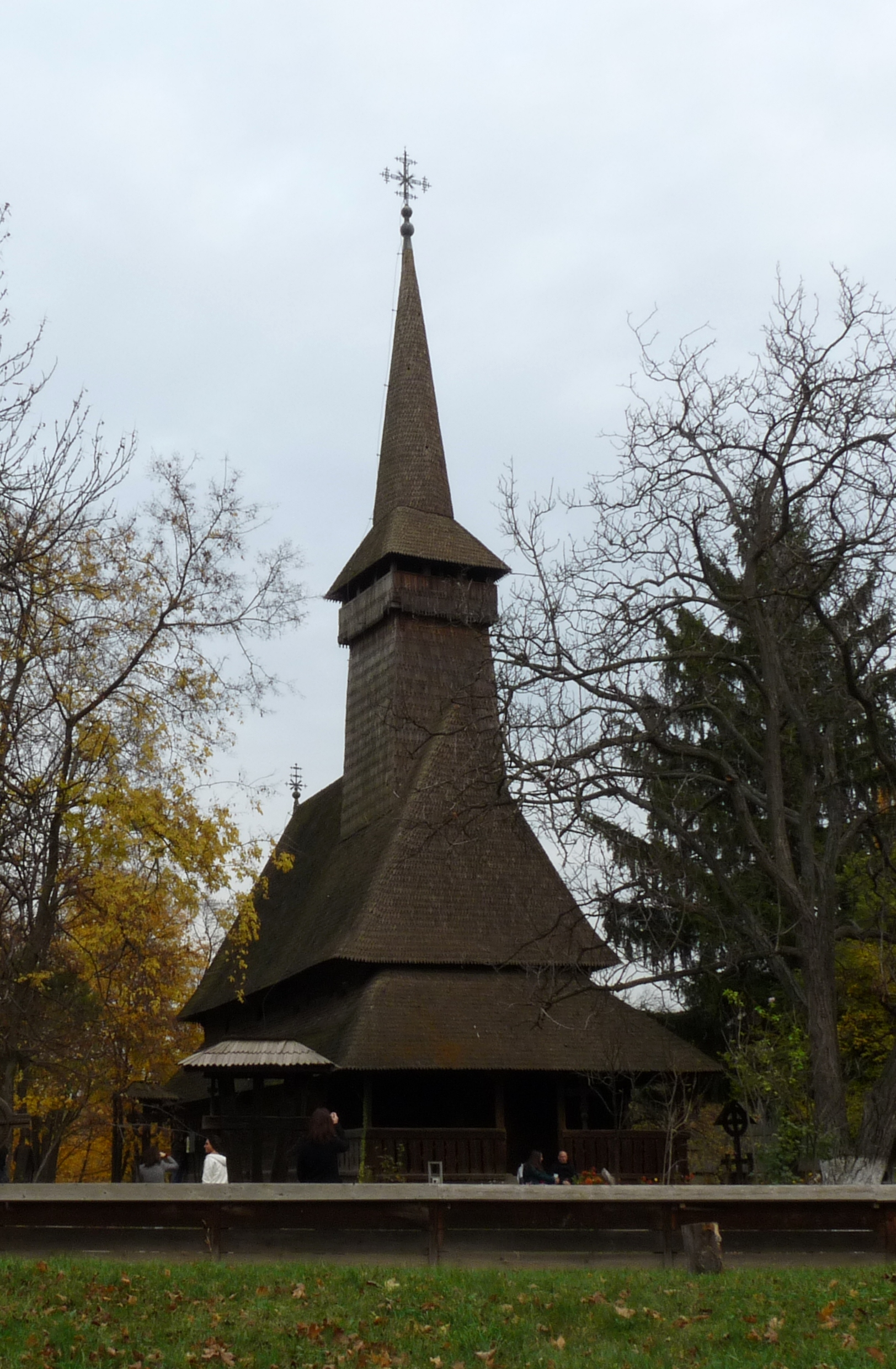 1722 wooden church from Dragomireşti, Maramureş County, Romania, exhibited in the Village Museum in Bucharest.